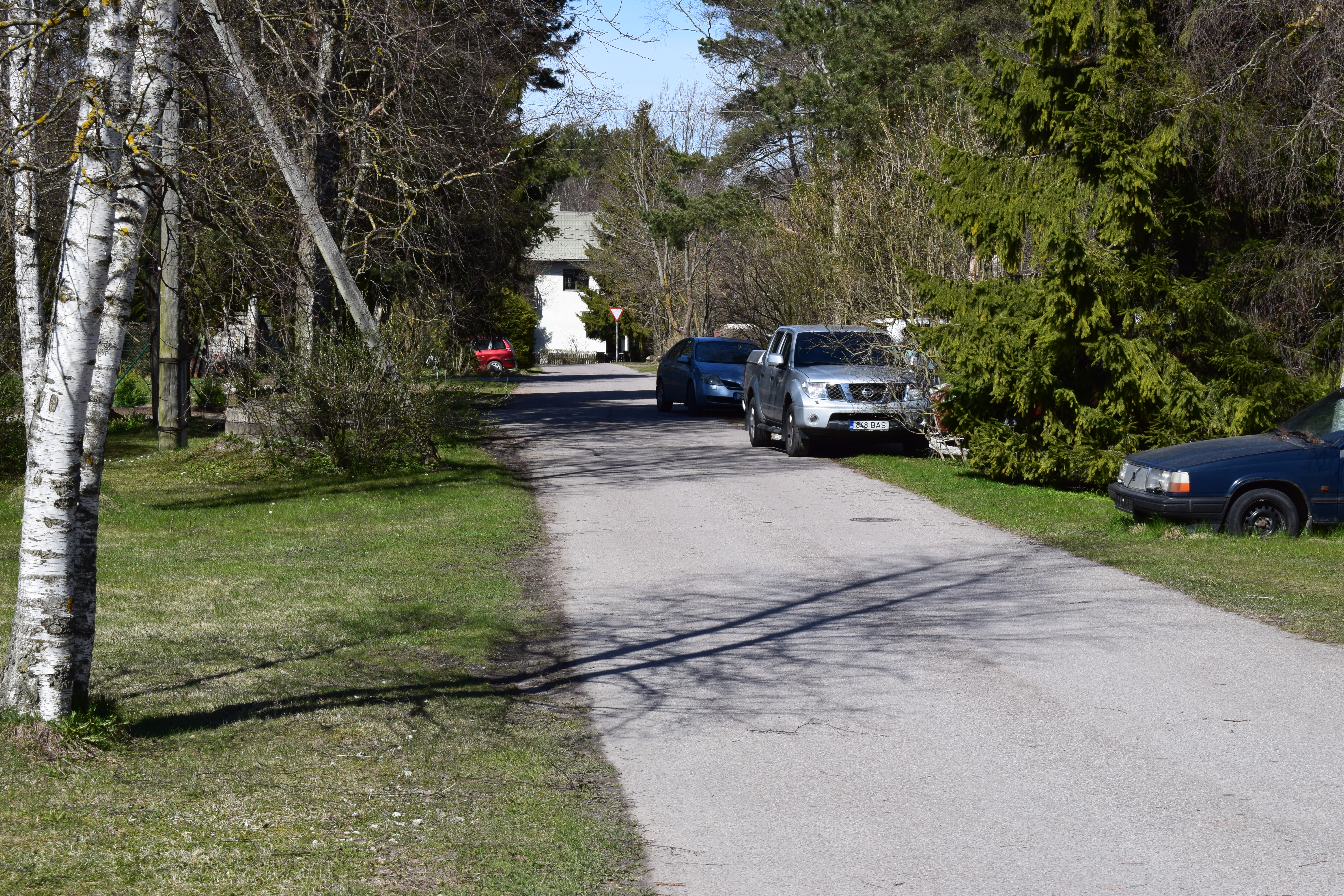 Pääsusilma tee